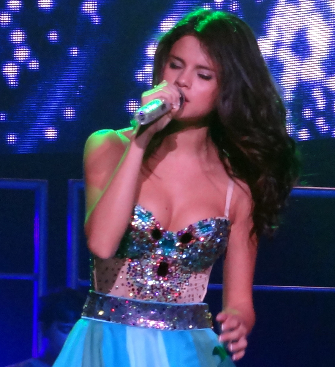 Selena Gomez at the We Own the Night Tour 2011.